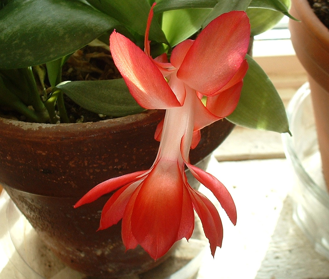 Schlumbergera x buckleyi.